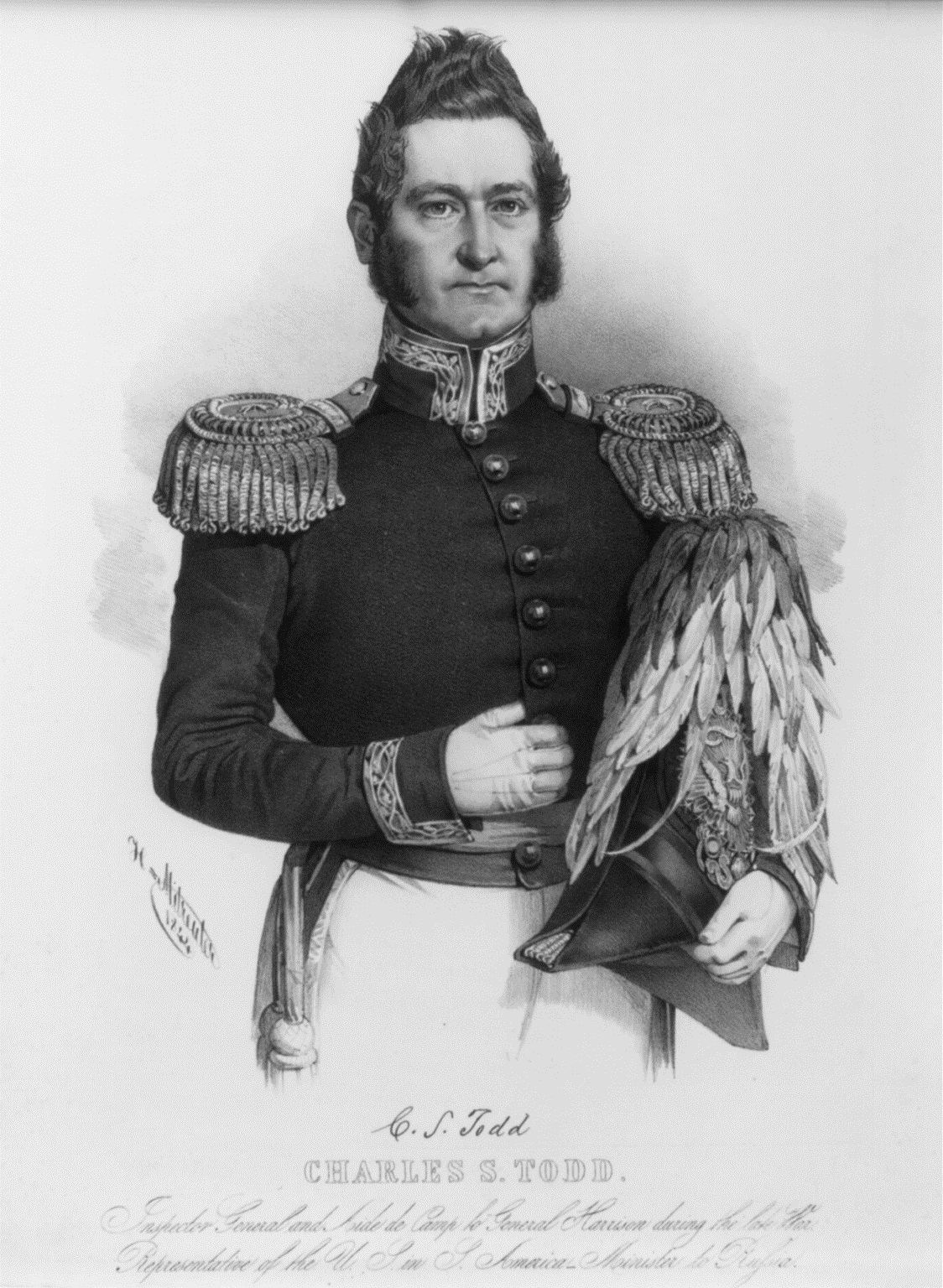 Charles S. Todd (US Minister to Russia)